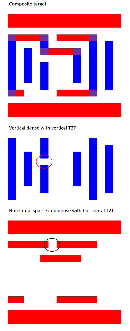 A composite target layout (top) is split into two sub-layouts: vertical dense lines (blue) and horizontal sparse and dense lines (red) due to the incompatibility of the illuminations used for each sub-layout,[1] when the dense pitch is less than wavelength divided by numerical aperture. The sparse lines require on-axis illumination, while dense lines require off-axis illumination.[2][3] On the other hand, with off-axis illumination, it is desirable to apply subresolution assist features for the sparse horizontal lines.[4] So the layout splitting allows this due to extra spaces between lines while the original composite doesn't. Furthermore, the tip-to-tip (T2T) features (circled) also need to be controlled well, but are inherently the wrong orientation, requiring the use of additional cut exposures, as it is not possible to fit assist features.